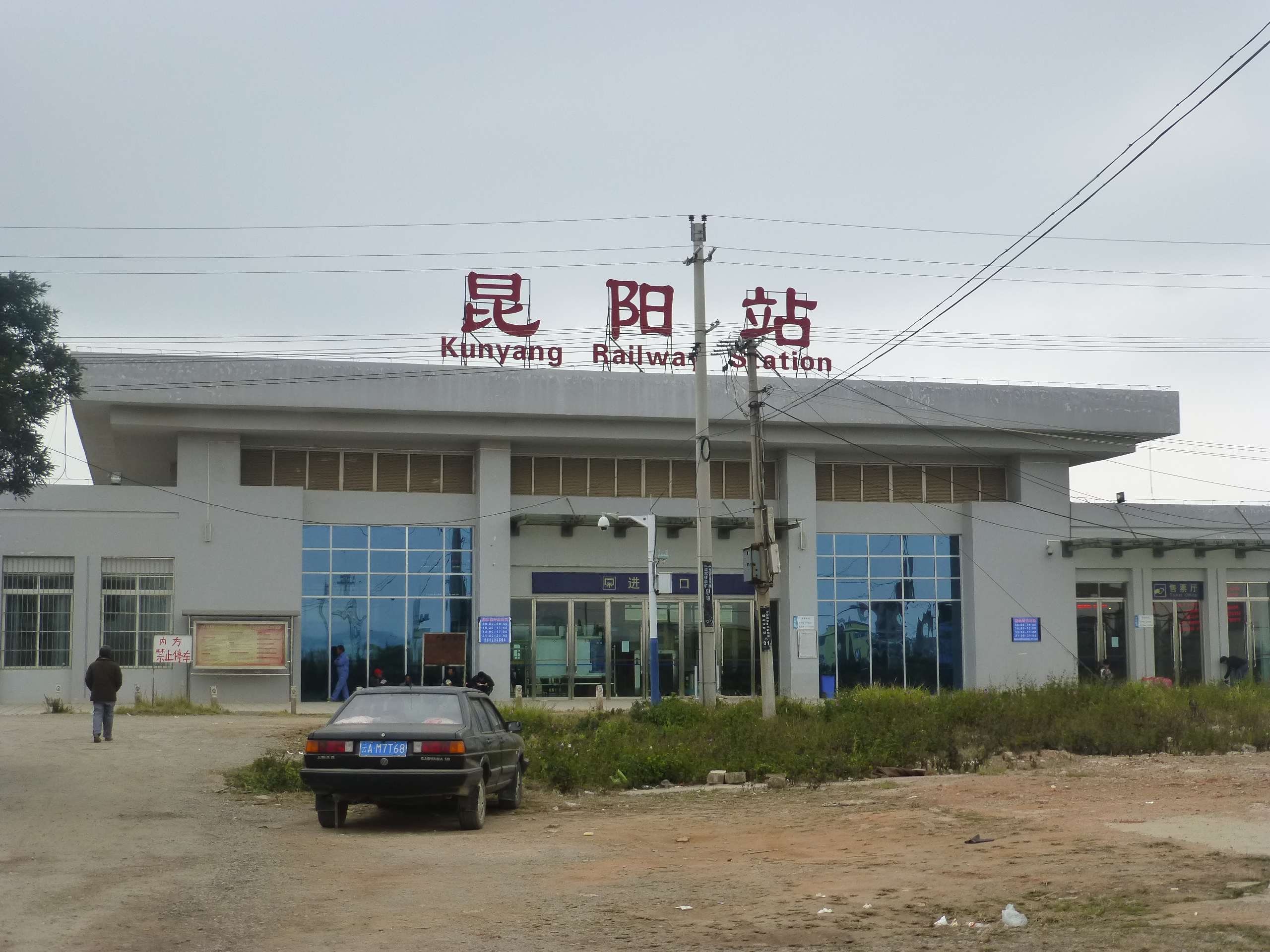 Kunyang Railway Station, on the Kunming-Yuxi Railway.